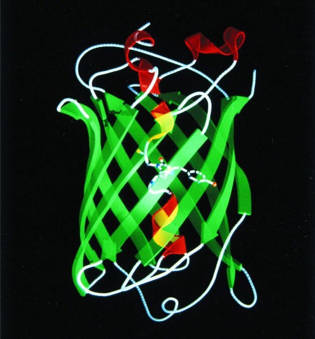 Рис. 7. Визуализация структуры GFP дикого типа. Красным цветом выделены альфа-спирали, зеленым – бета-листы. Хромофор представлен шаростержневой моделью.